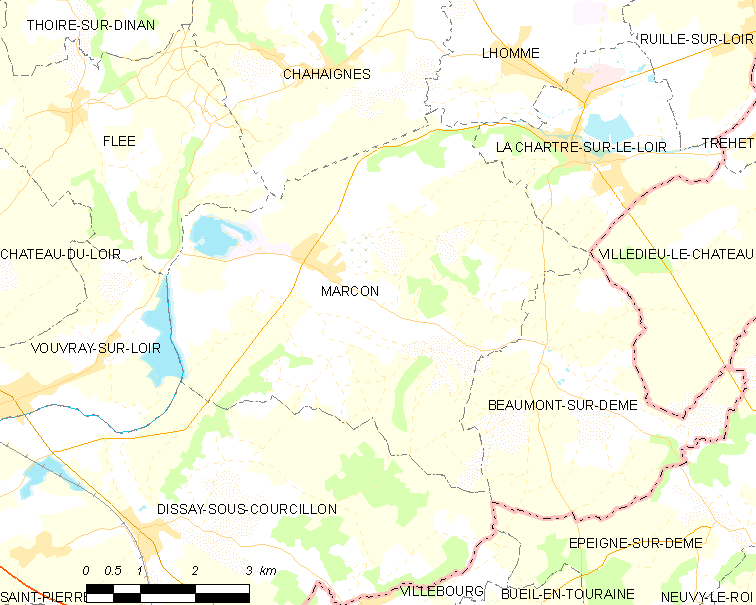 Map of French municipality